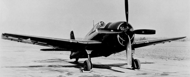 One of two Grumman XF6F-6 prototypes (converted F6F-5s U.S. Navy BuNos 70188, 70913) fitted with a 2,100 hp Pratt & Whitney R-2800-18W engine at the Naval Air Test Center in Patuxent River, Maryland (USA), on 20 December 1944. The first XF6F-6 flew on 6 July 1944.